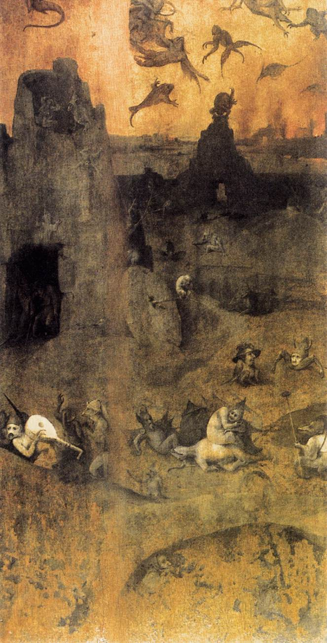 Fragment (innerleft wing) of a triptych. See File:The Hell and the Flood P3.jpg for the outer left wing and File:The Hell and the Flood P4.jpg and File:The Hell and the Flood P2.jpg for the right wing.